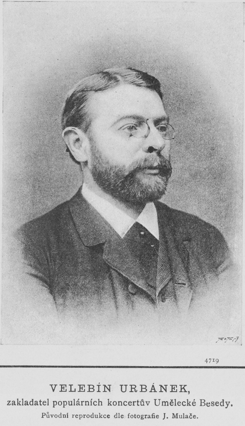 Portrait of Velebín Urbánek (1853 - 1892), Czech publisher of music.